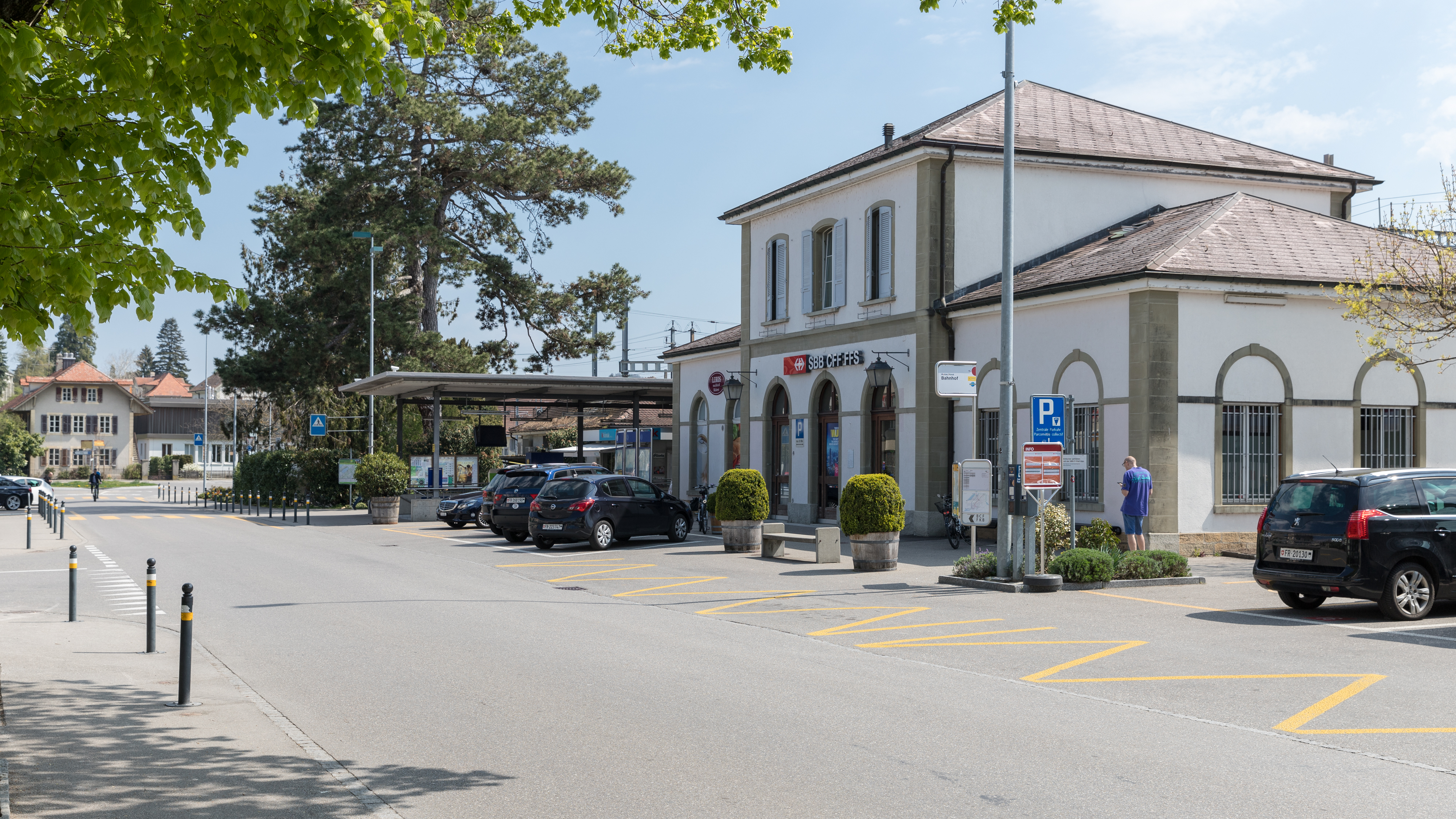 Murten/Morat railway station, Switzerland.